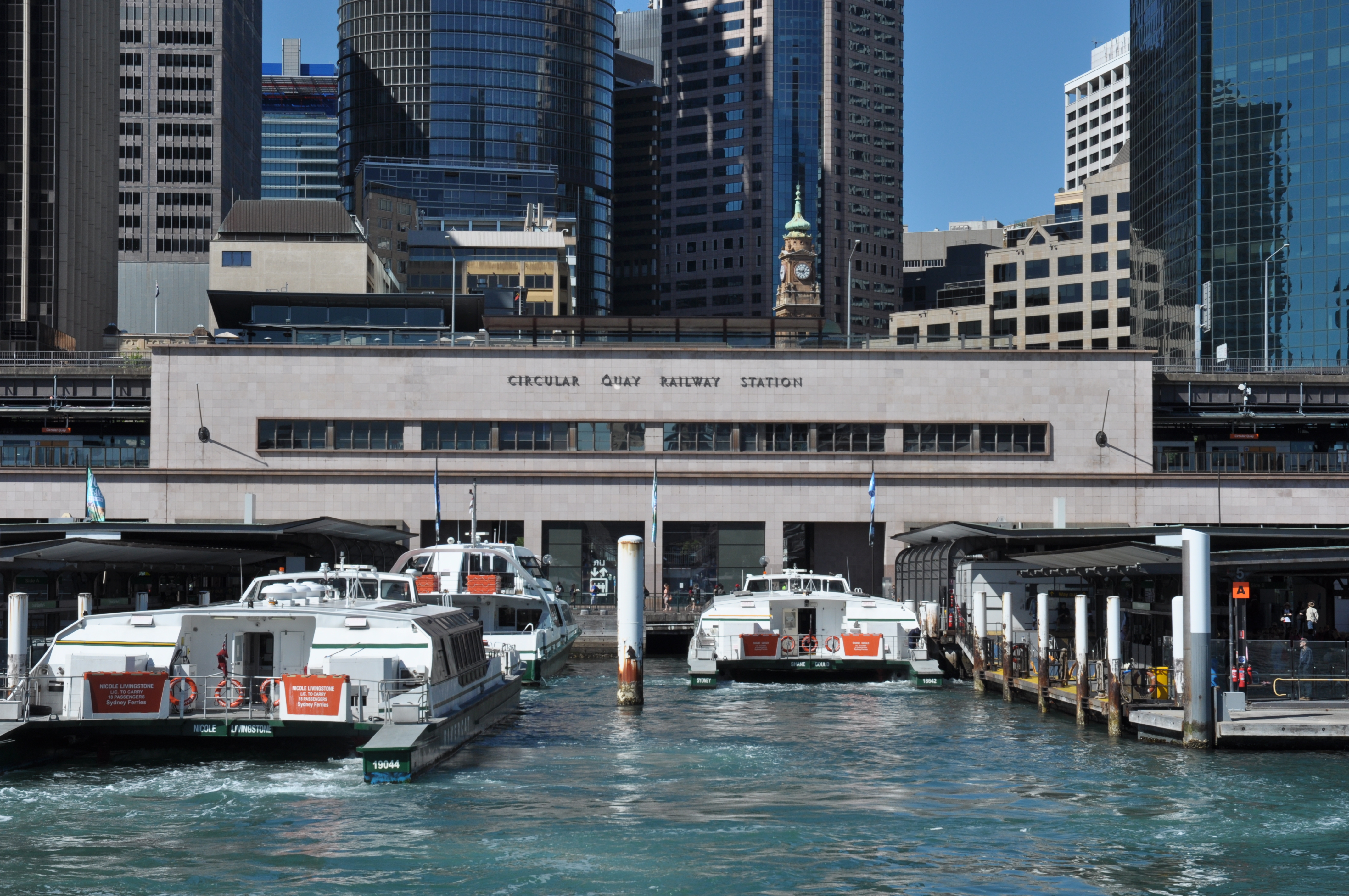 Circular Quay railway station taken from Circular Quay harbour